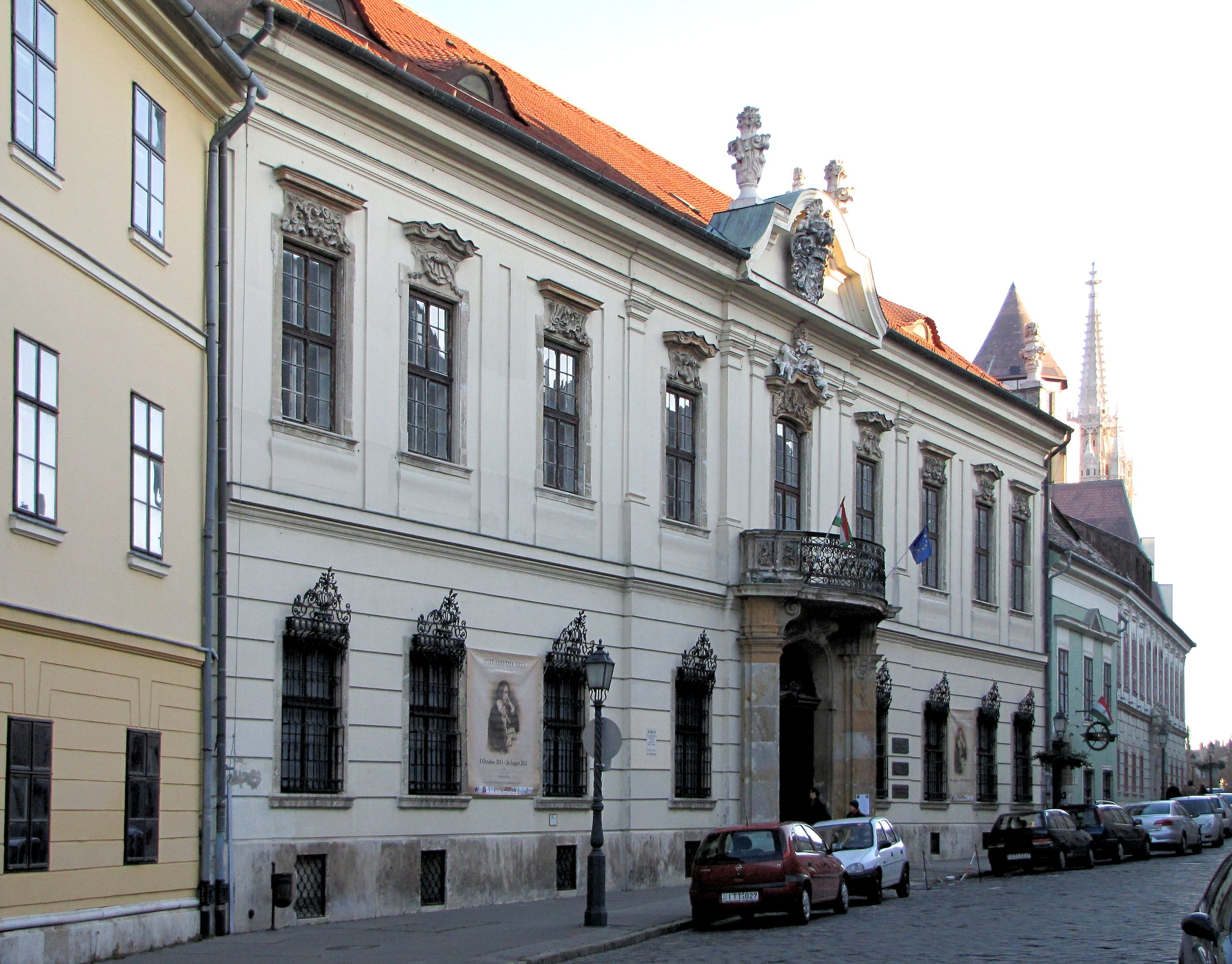 Erdődy palace, Buda Castle. Architect: Máté Nepauer, 1750-1769.